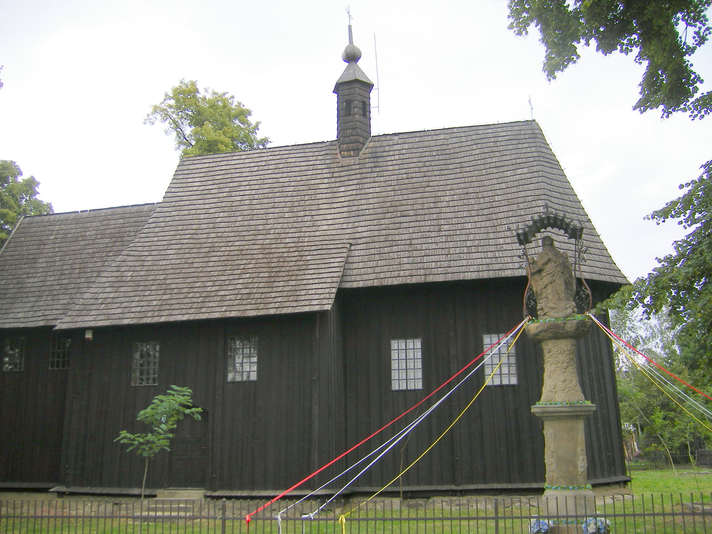 Wojnicz (Tarnów county), Church of St. Leonard in Wojnicz